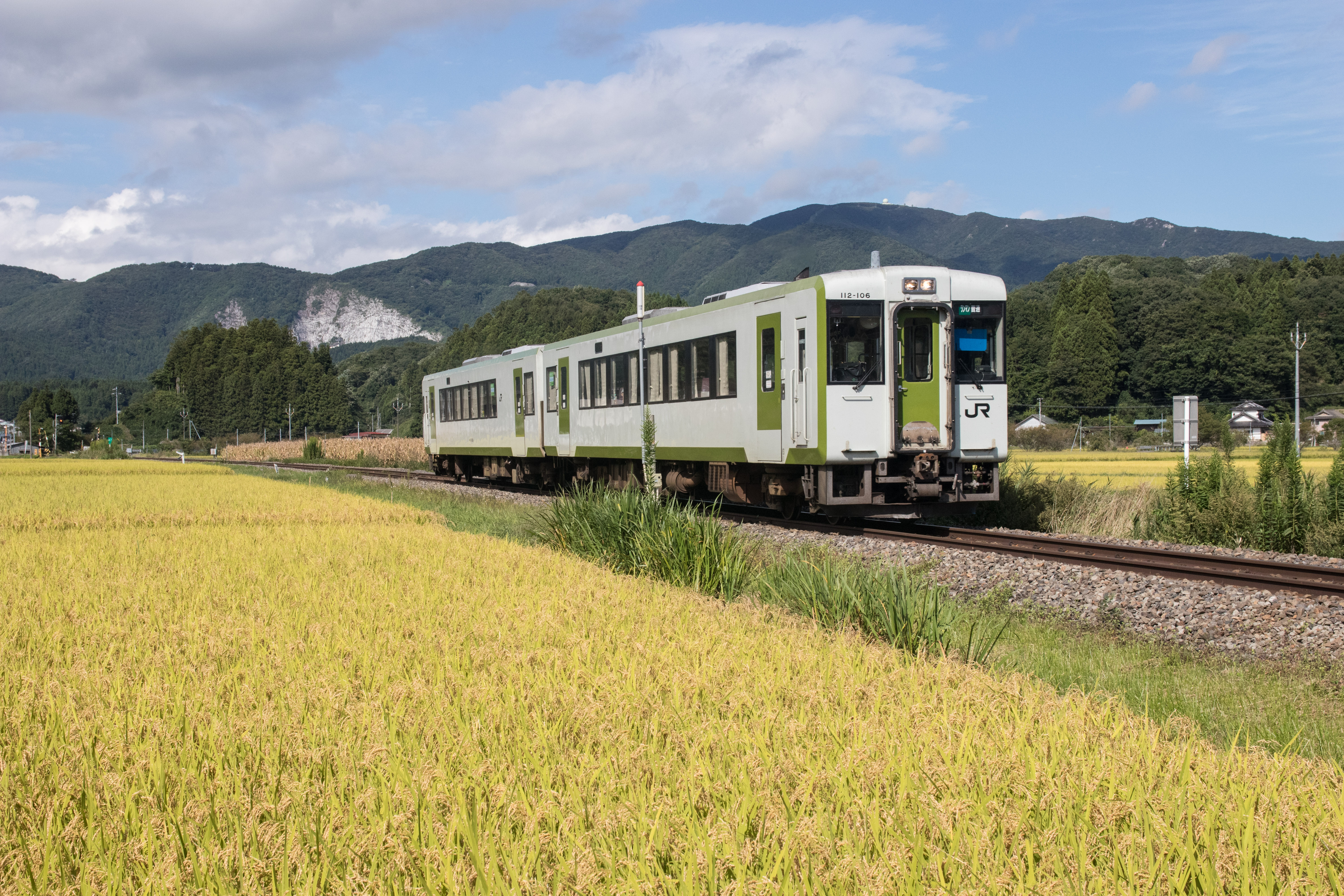 A JR East KiHa 110 series DMU train on the Ban'etsu East Line in Tamura, Fukushima Prefecture, Japan